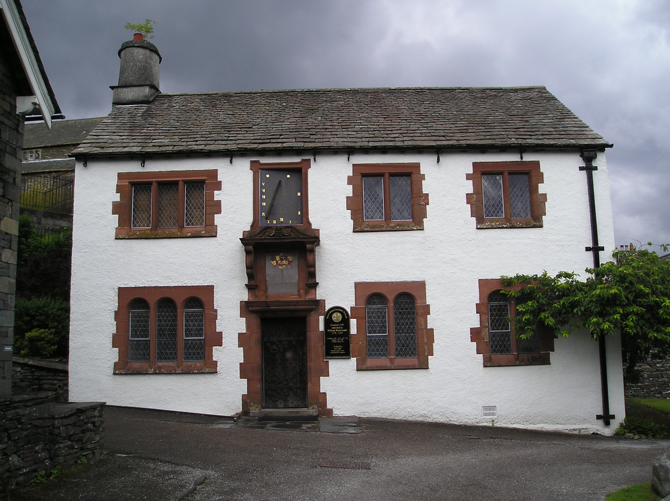 HAWKSHEAD GRAMMAR SCHOOL Wikidata has entry Q5685270 with data related to this building.